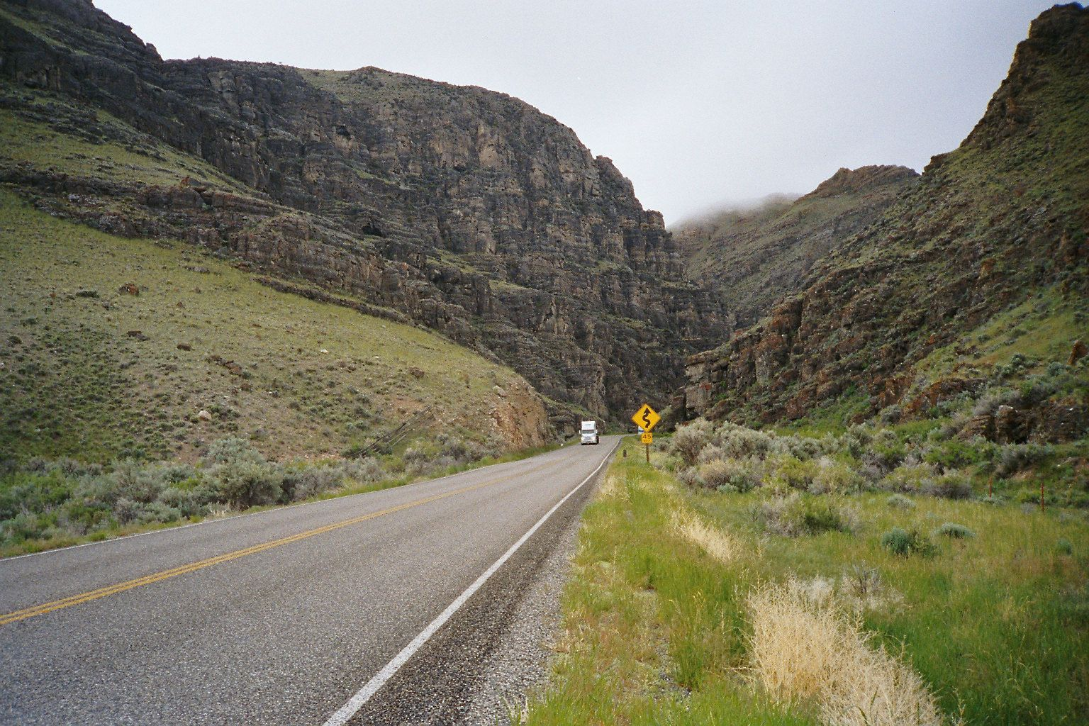 Grand View Canyon (Custer County) SR93